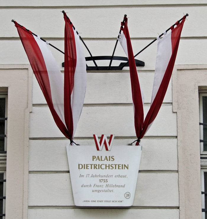 Sign in front of Palais Dietrichstein.